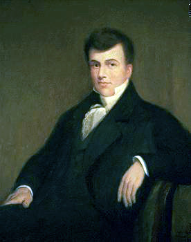 Govorner Jonathan Jennings, painting made in 1819